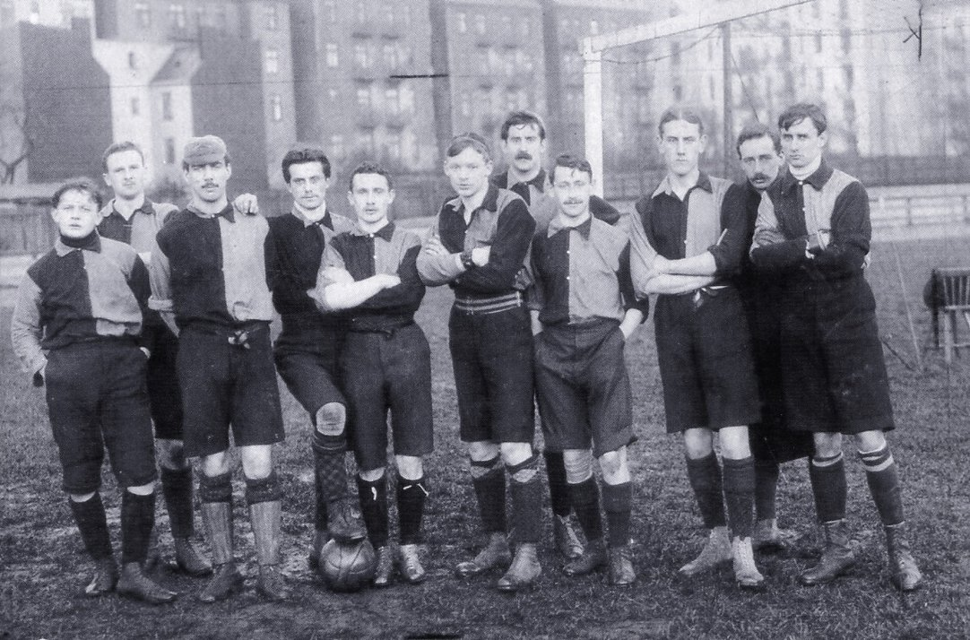 Association football team of defunct SC Germania Hamburg (aka. Germania 1887 - 1887 to 1919), ca. 1904